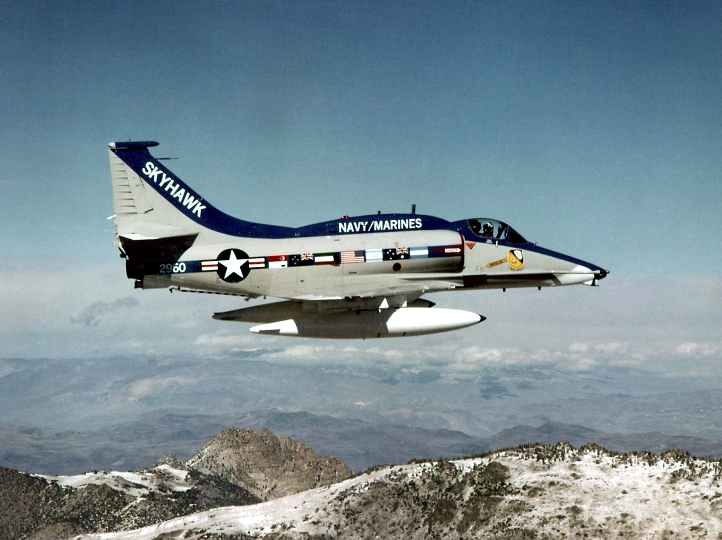 The last (McDonnell) Douglas A-4 Skyhawk built in flight in February 1979. The A-4M BuNo 160264 (c/n 14607) was the 2960th Skyhawk, being delivered to the U.S. Marine Corps Marine Attack Squadron of VMA-331 "Tomcats" in February 1979. Today, it is on display at the Flying Leatherneck Aviation Museum at Miramar, California (USA), wearing the shown paint scheme.